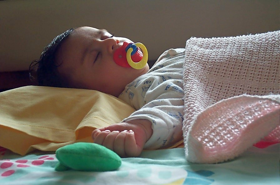 Sleeping girl (4m)